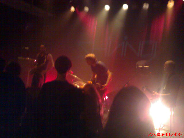 Shining live at Tou Scene, Stavanger, 2010